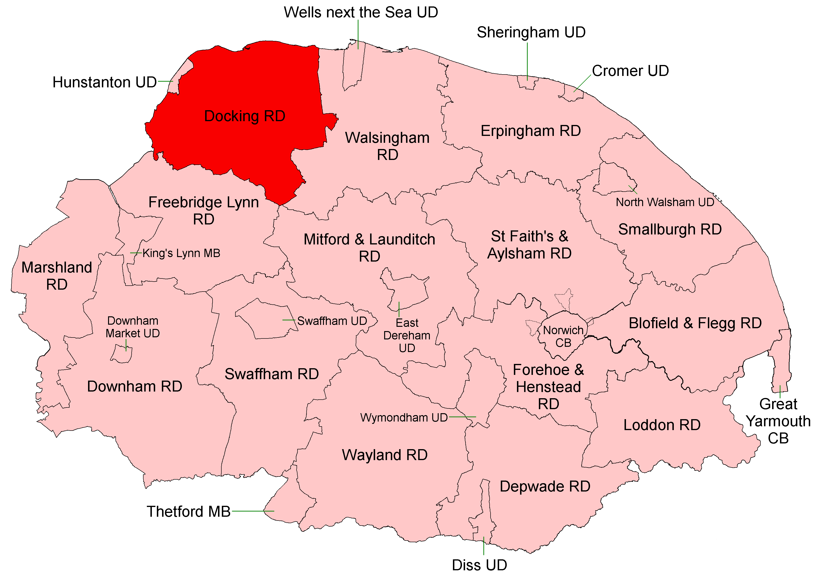 Docking Rural District, shown within the county of Norfolk, 1935. The boundaries shown were established in 1935 and generally persisted until reorganisation in 1974, except that Norwich CB was enlarged in 1951 and 1968, and Cromer UD in 1953, to reach the dotted boundaries. Some sandbanks in the Wash, although technically parished, are not shown.